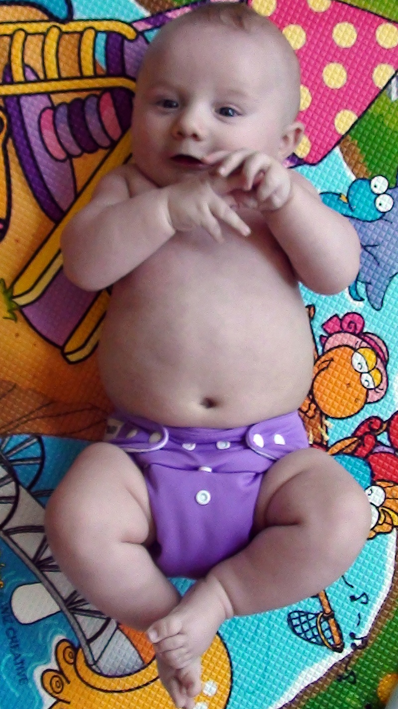 Picture